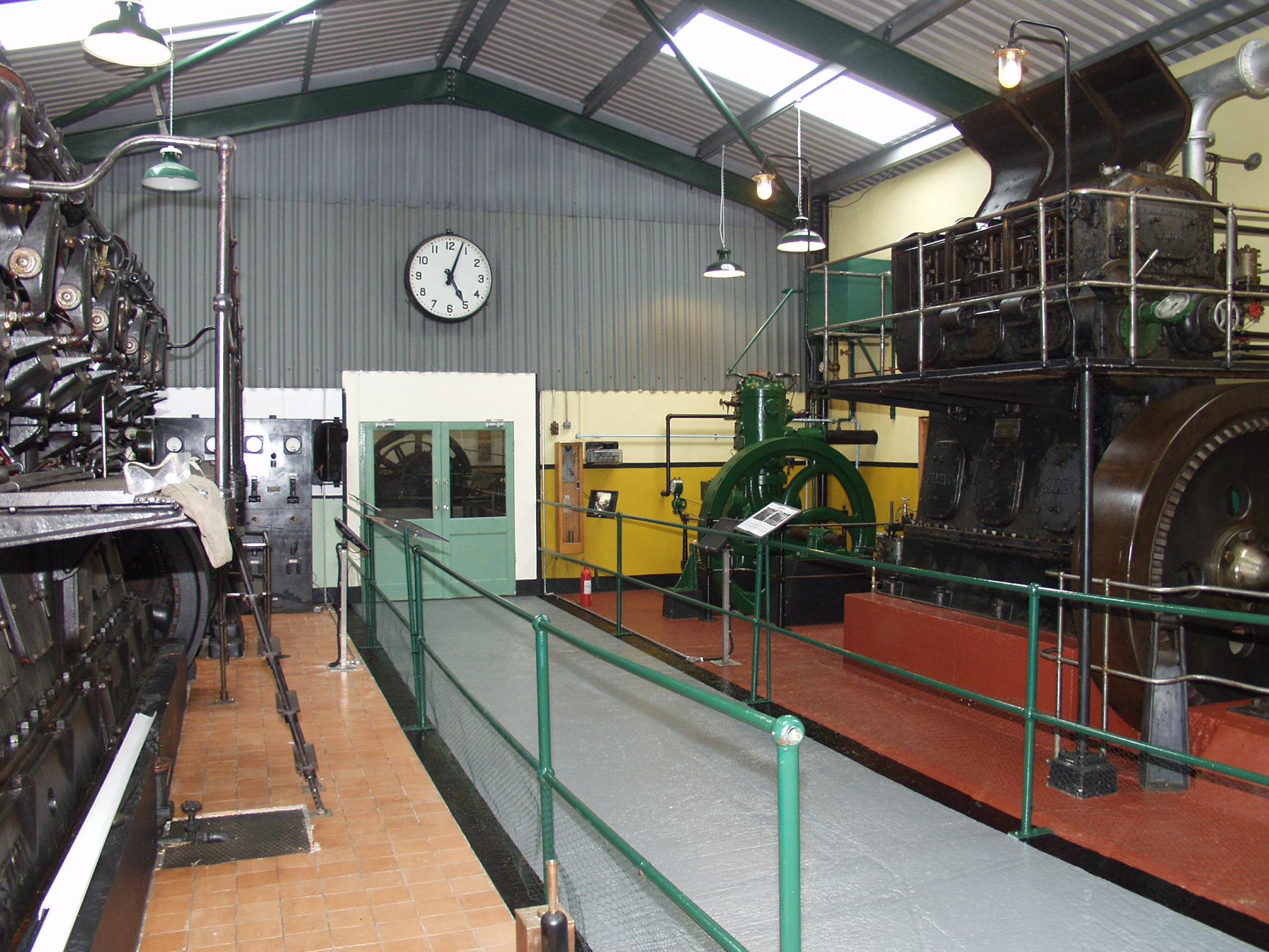 Hall 1 at the museum with the ex-Moorside Edge Ruston 6VE left and Allen S47 right